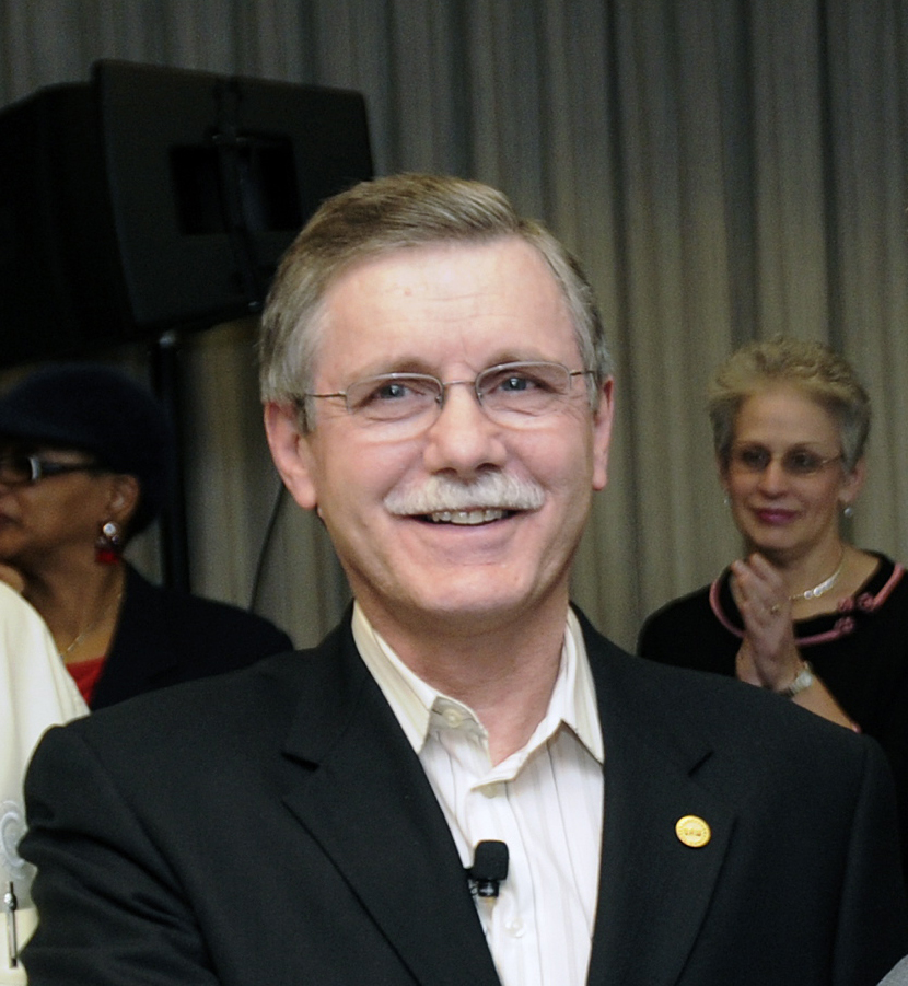 Left to right: Ron Gettelfinger, UAW President. Crop of the larger Image:FMC-UAW agreement, 2007.jpg